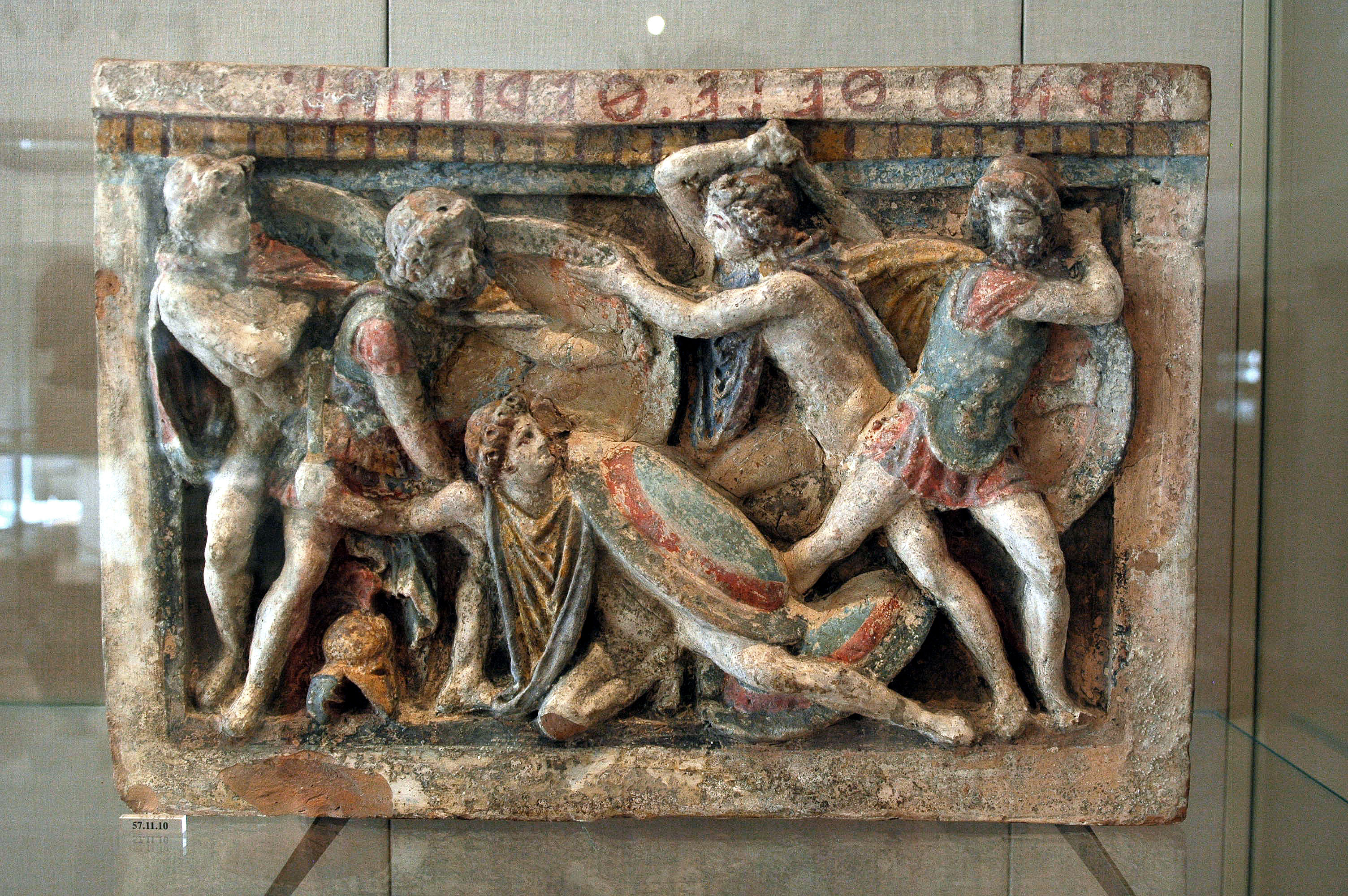 Metropolitan Museum of Art # 57.11.10